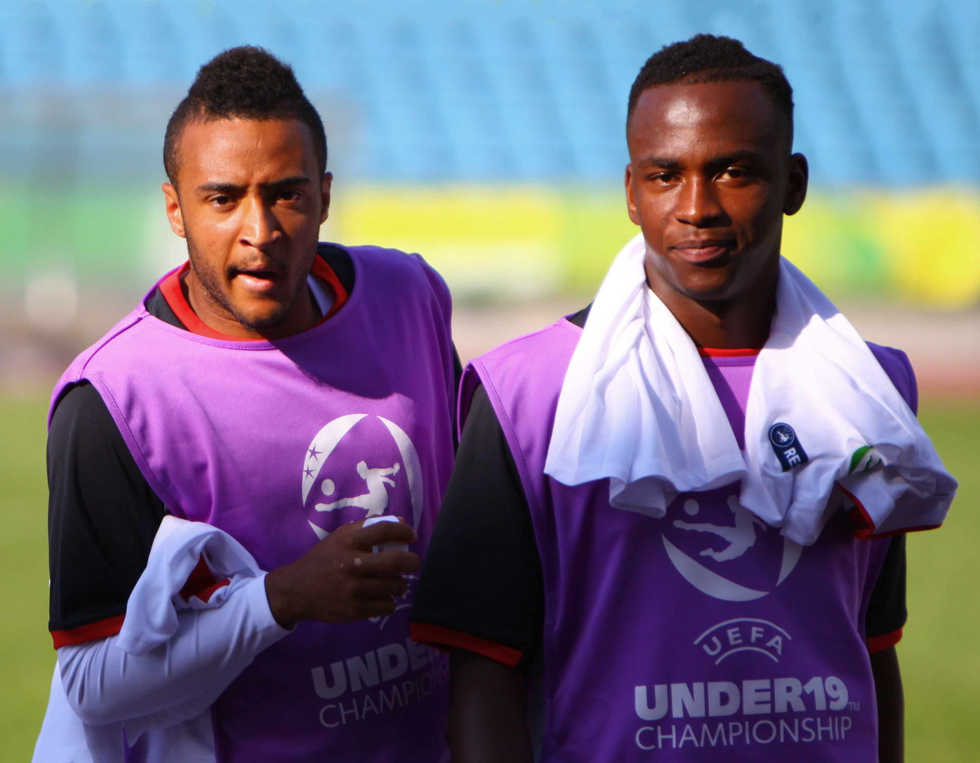 Nathan Redmond and Saido Berahino